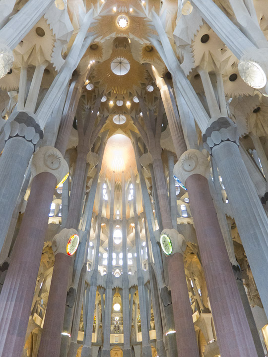 Sagrada Familia interior view, looking up over the altar